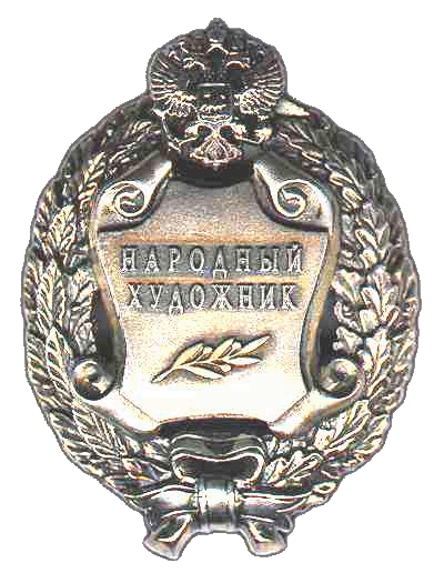 People's Artist of Russia. Badge.